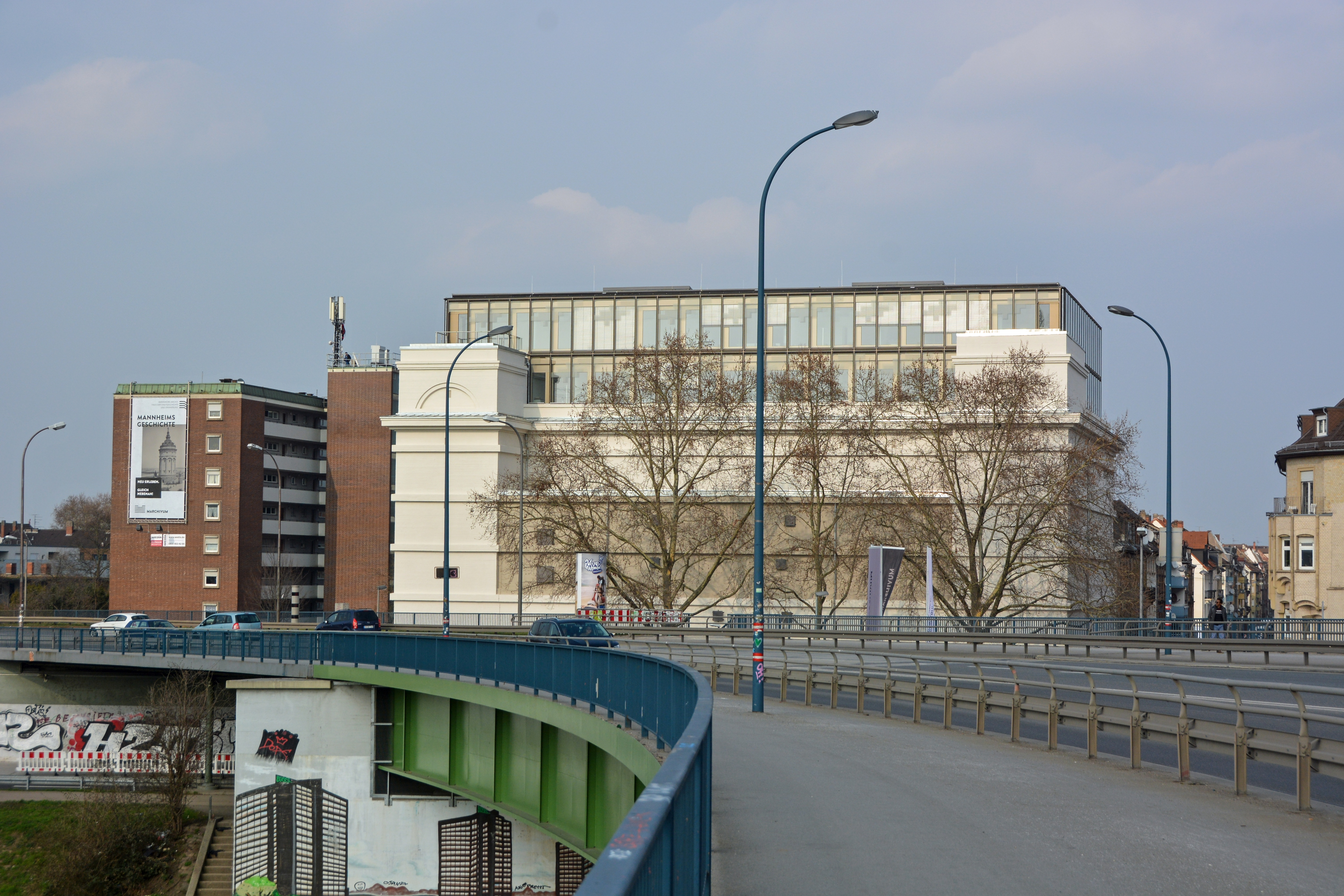 Ochsenpferchbunker Mannheim - Mannheim town archive